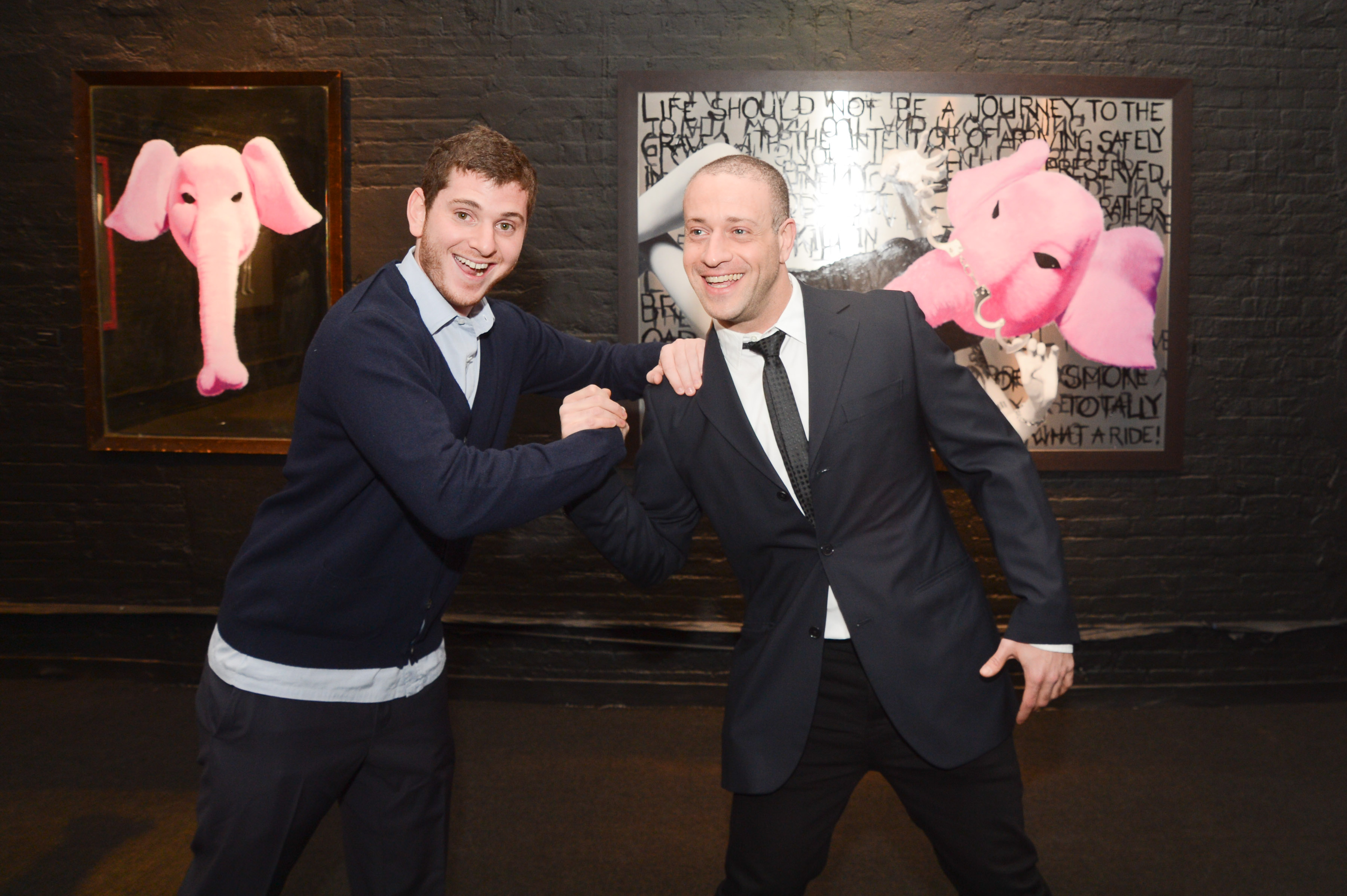 Joseph Nahmad, Michael Sagato